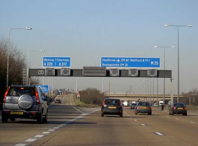 Motorway Gantry over M25 Junction 11 Gantry clockwise over the M25. Also showing junction slip road and bridge in the distance.